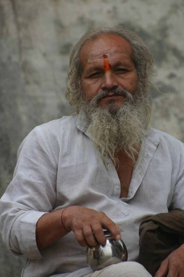 Man in Varanasi with red tilak on his foreheadVaranasi 2